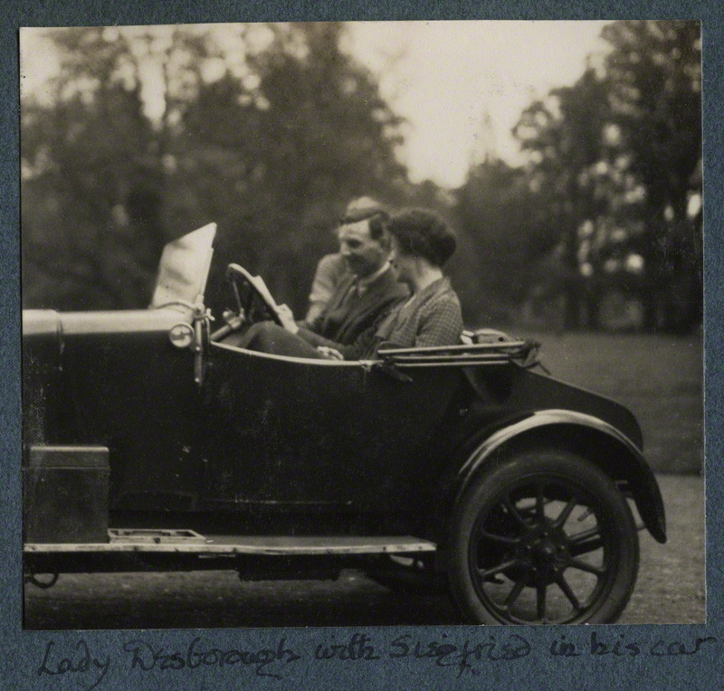 Siegfried Sasson and Ethel Fane Lady Desborough in his car by Lady Ottoline Morrell (died 1938), vintage snapshot print, 1926